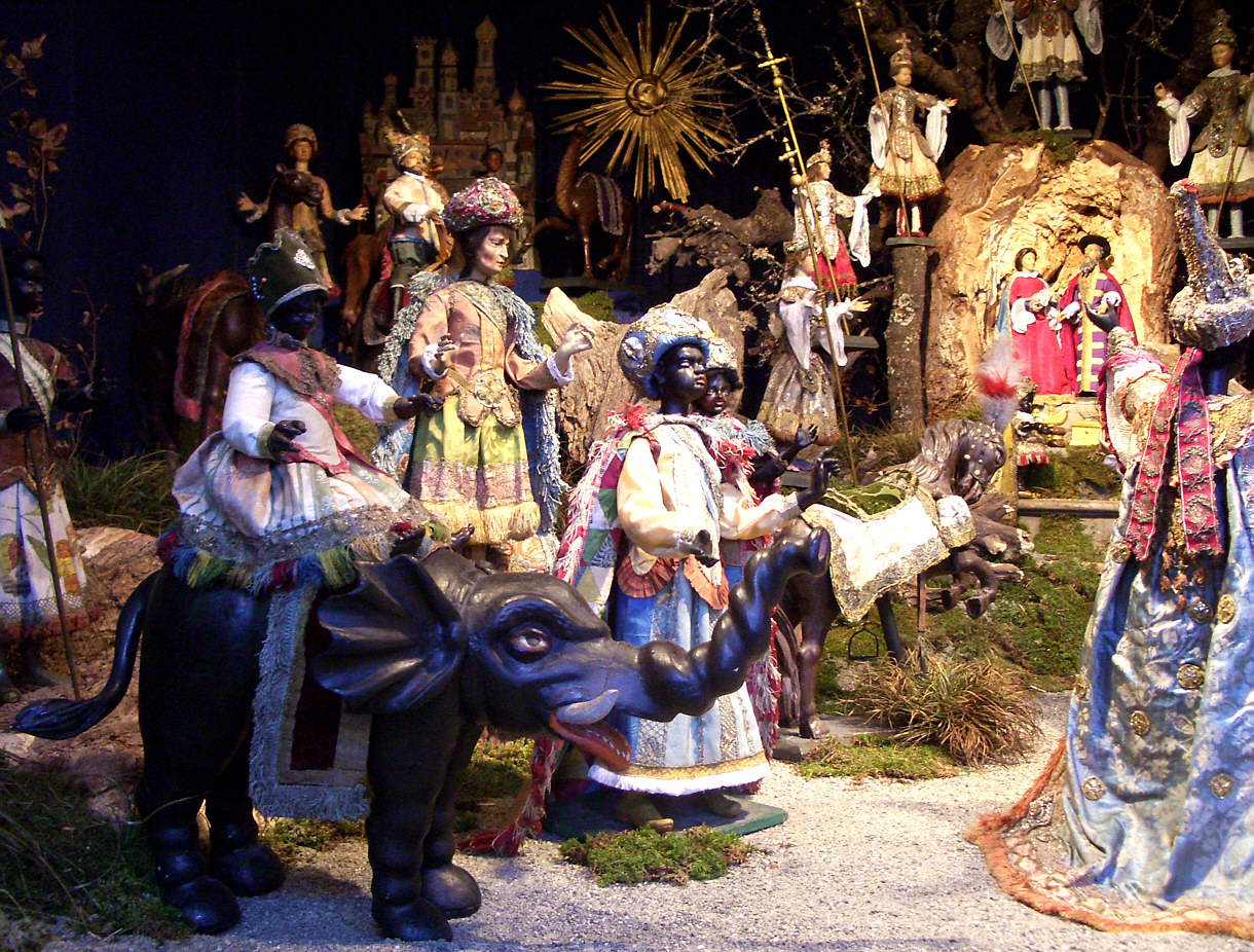 Gutenzell, Germany: Baroque nativity scene, Adoration of the Magi (detail with elephant)